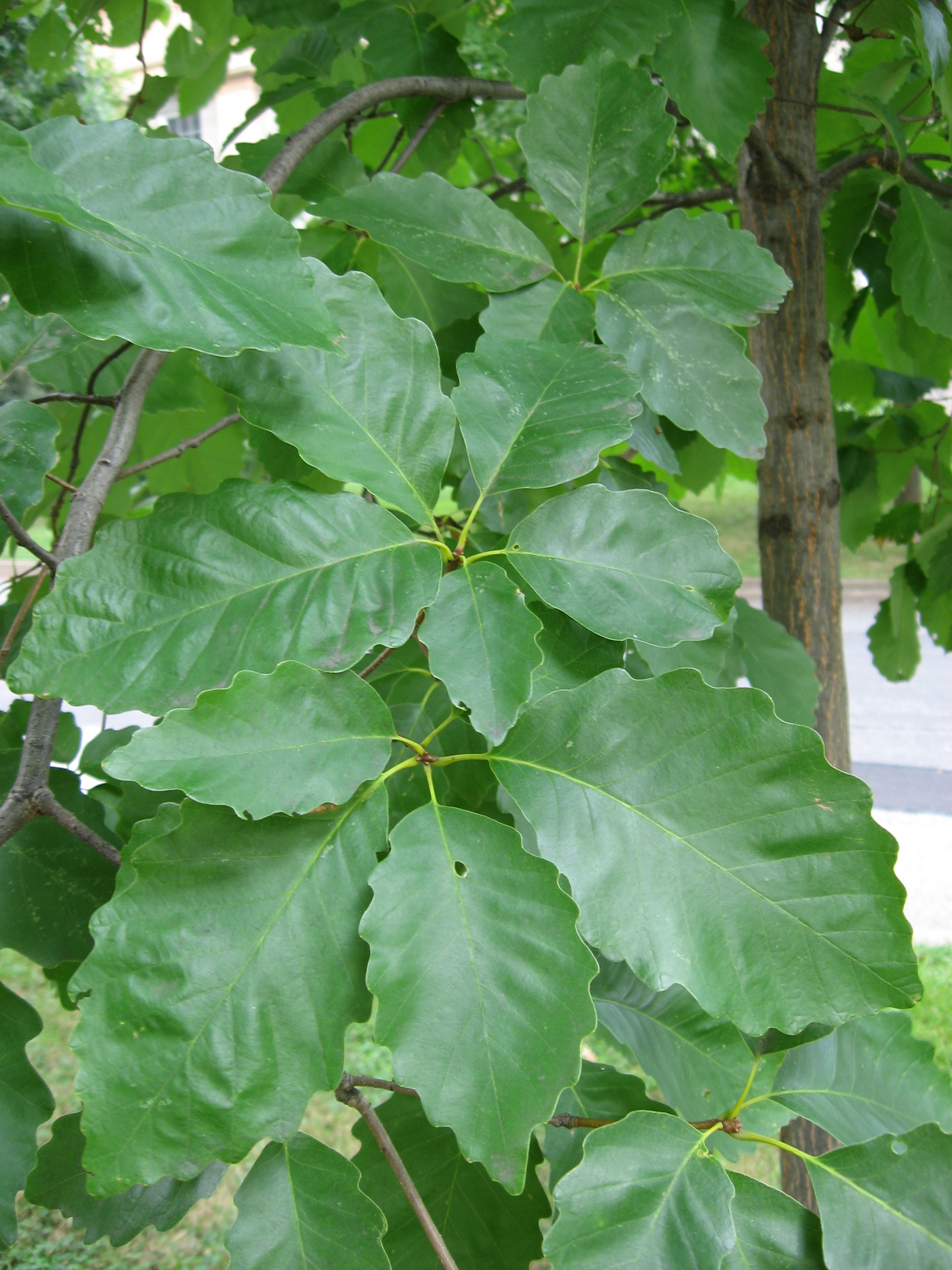 A picture of the leaves of Quercus michauxii.